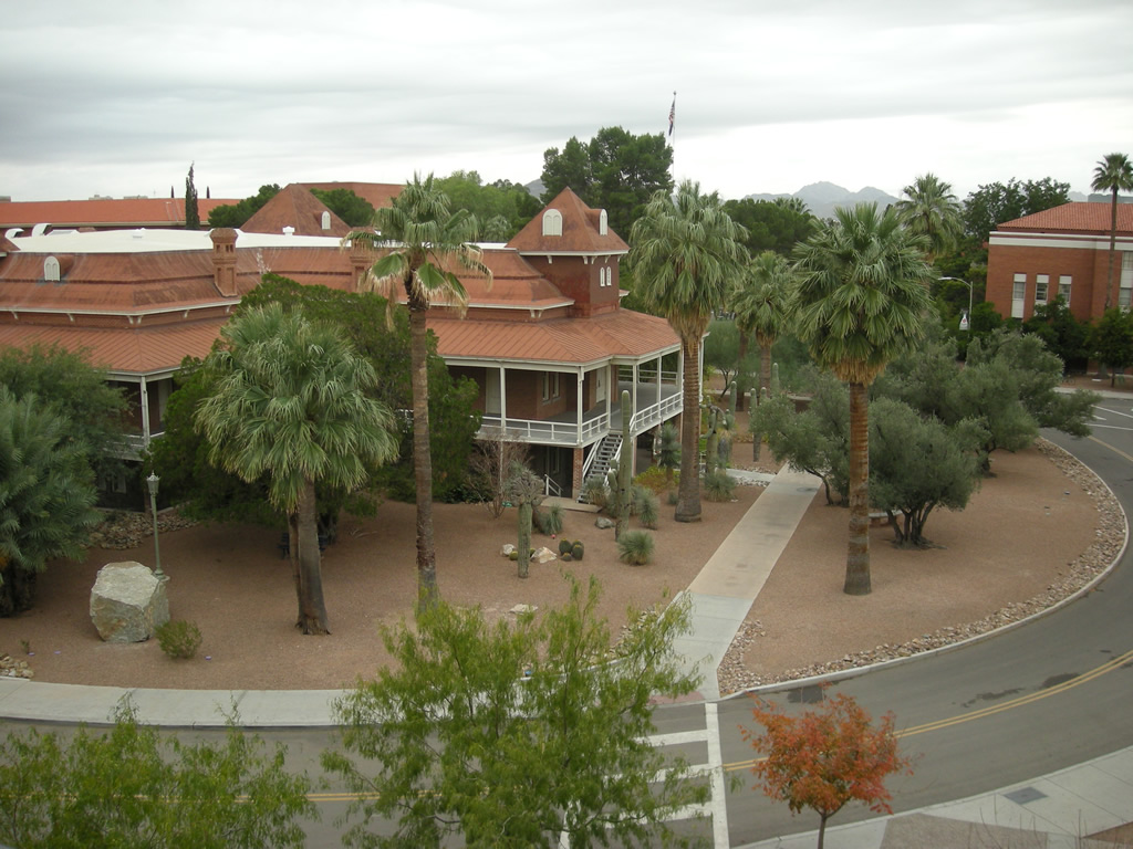 Old Main, University of Arizona This is the view from the top floor on the southwest side of the student union overlooking the east end of Old Main as well as the loop that goes around it.